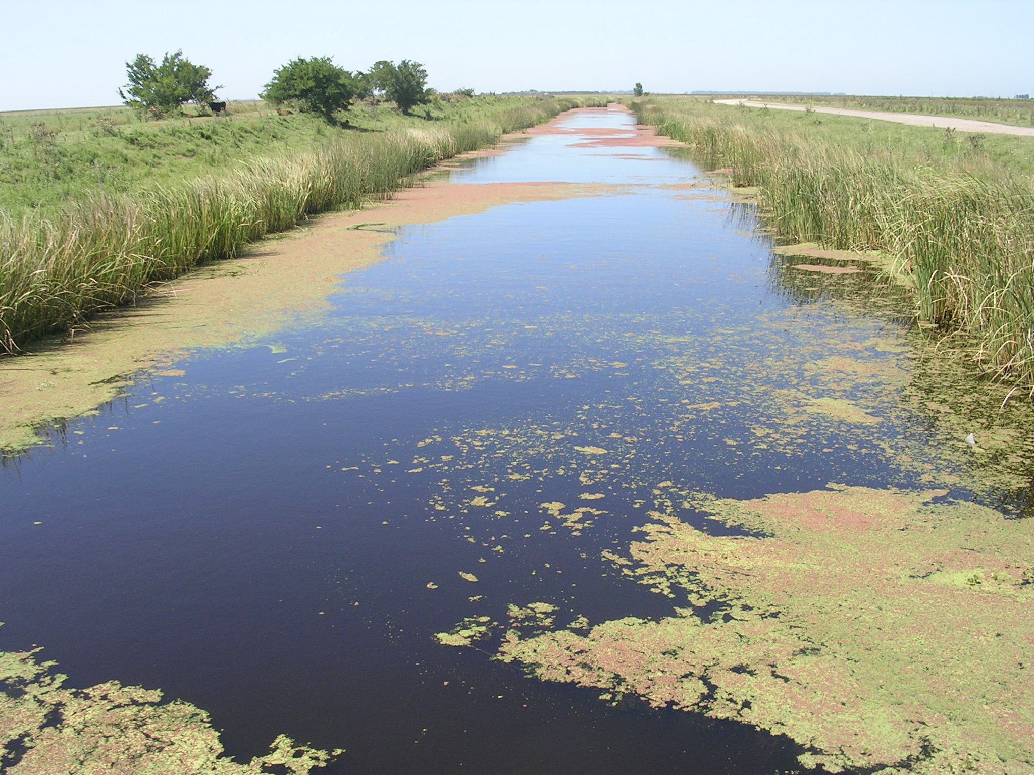 View of the shore Kakel Huincul Lagoon